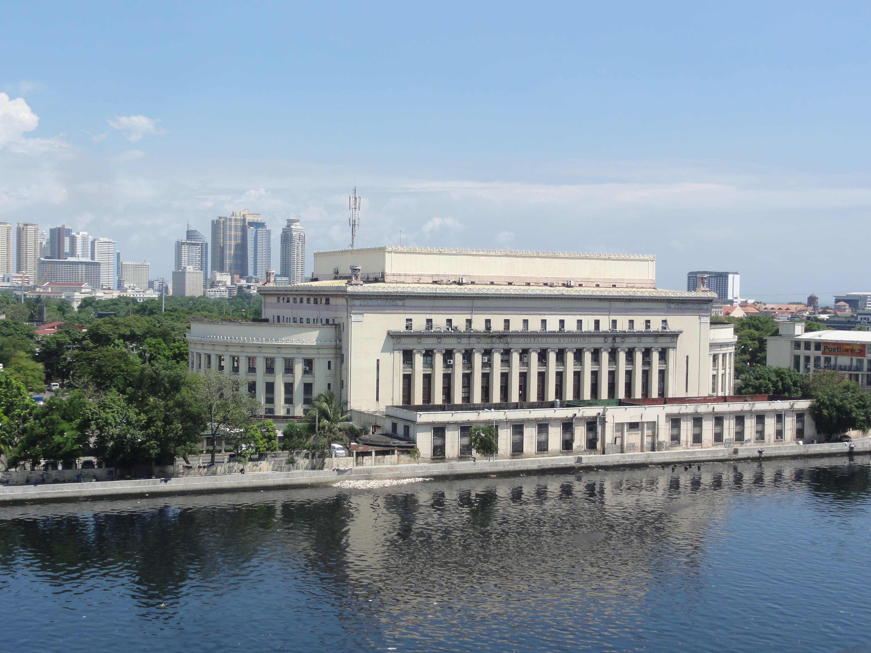 View of Post Office Building along Pasig River, Ermita, Manila as of June 2015.